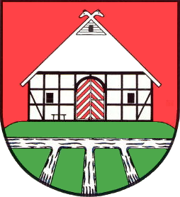 Coat of arms of the town Wesselburen in Schleswig-Holstein, Germany.